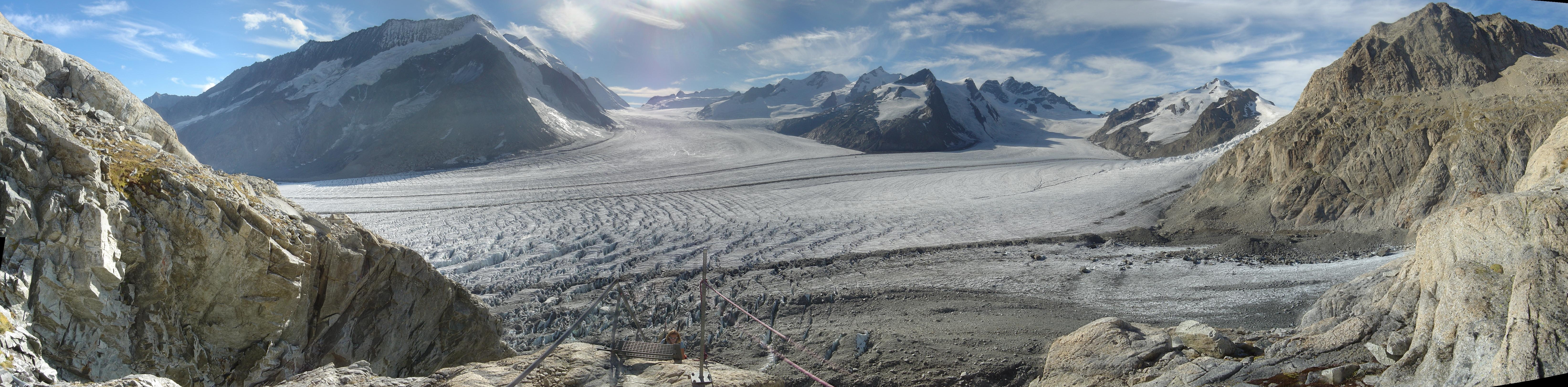 picture taken from the Konkordiahütte in mid september 2007, view of the aletschglacier and the konkordiaplatz